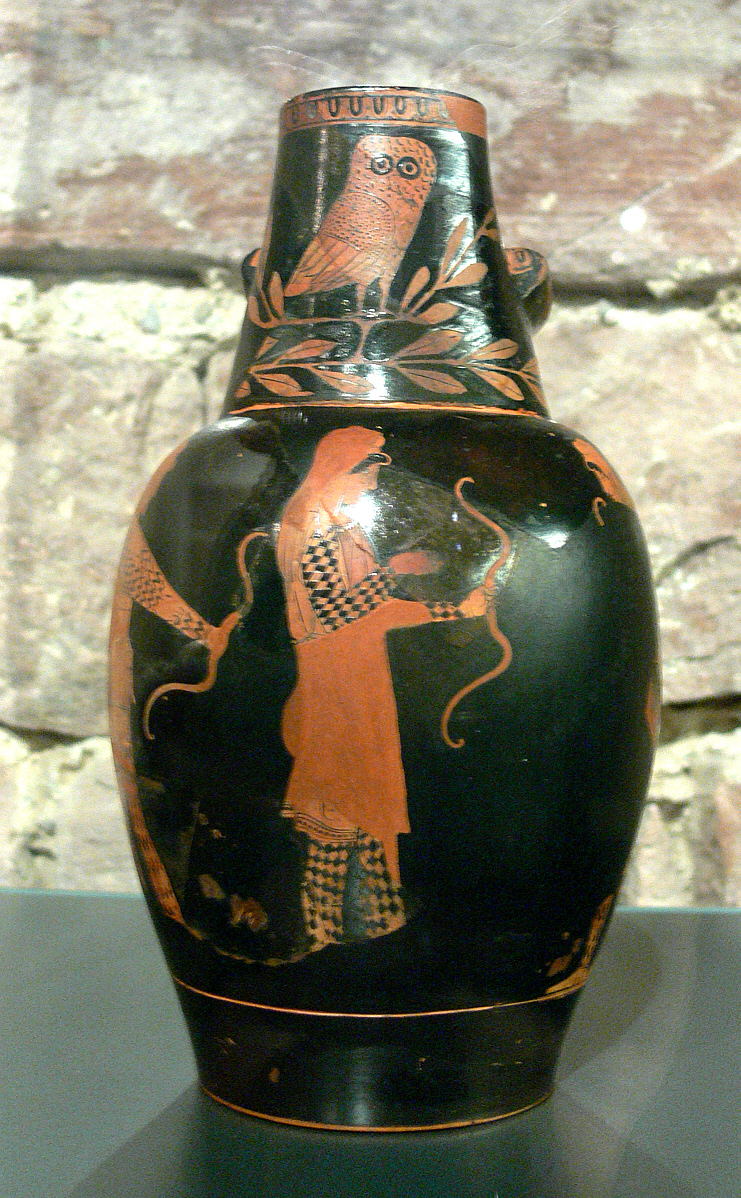 Three Amazones. Attic red-figure oinochoe by the Mannheim Painter, 460-450 BC. From a grave in Orvieto. Reiss-Engelhorn-Museen, Mannheim, Inv. 61. Beazley, ARV2, 1066, 9.